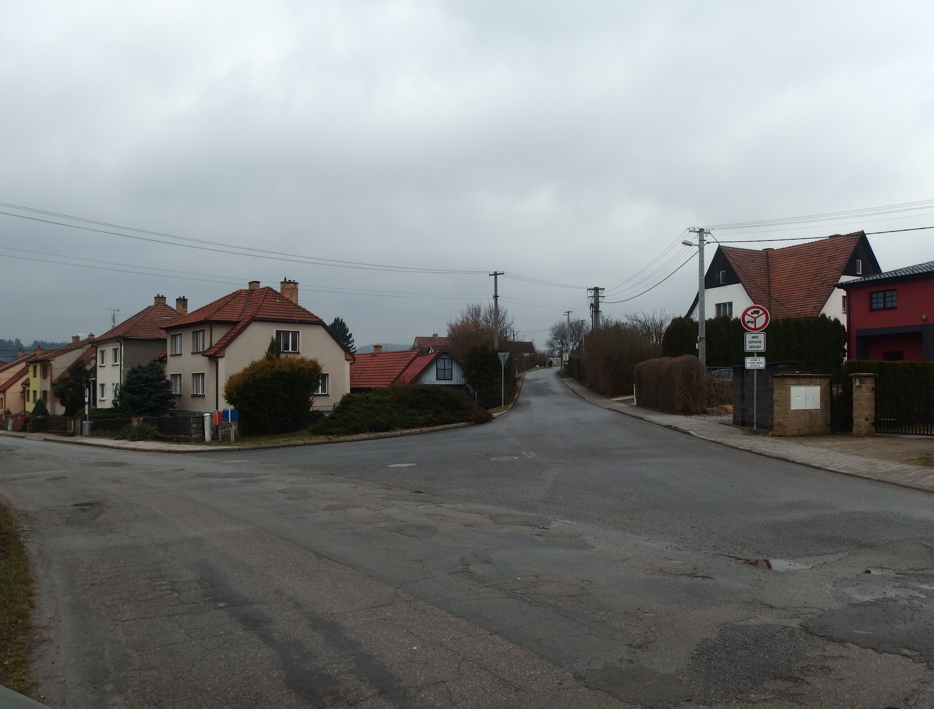 Letovice, Blansko District, Czech Republic, part Třebětín.